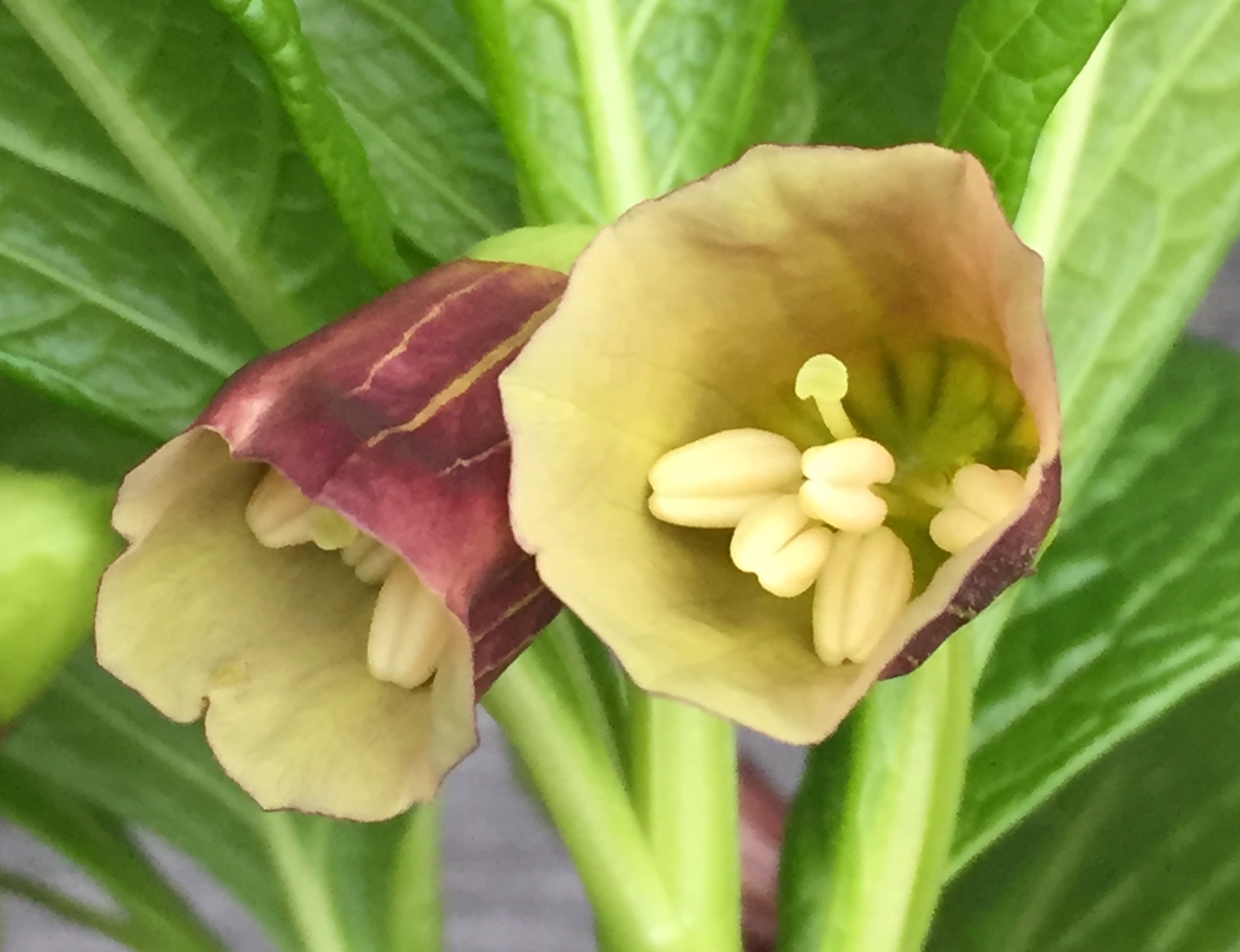 Tight close-up of two recently-opened flowers of Scopolia carniolica Jacq. , showing contrast of brownish-purple exterior with cream interior of corollae.